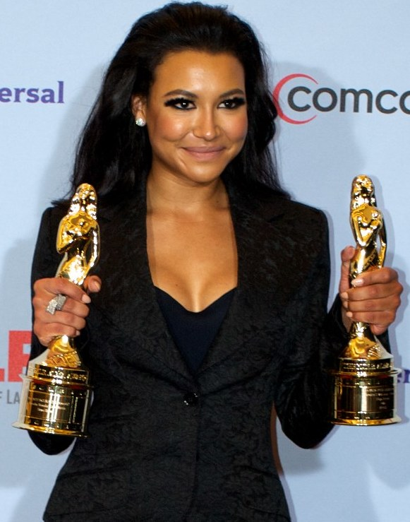 Alma Awards 2012